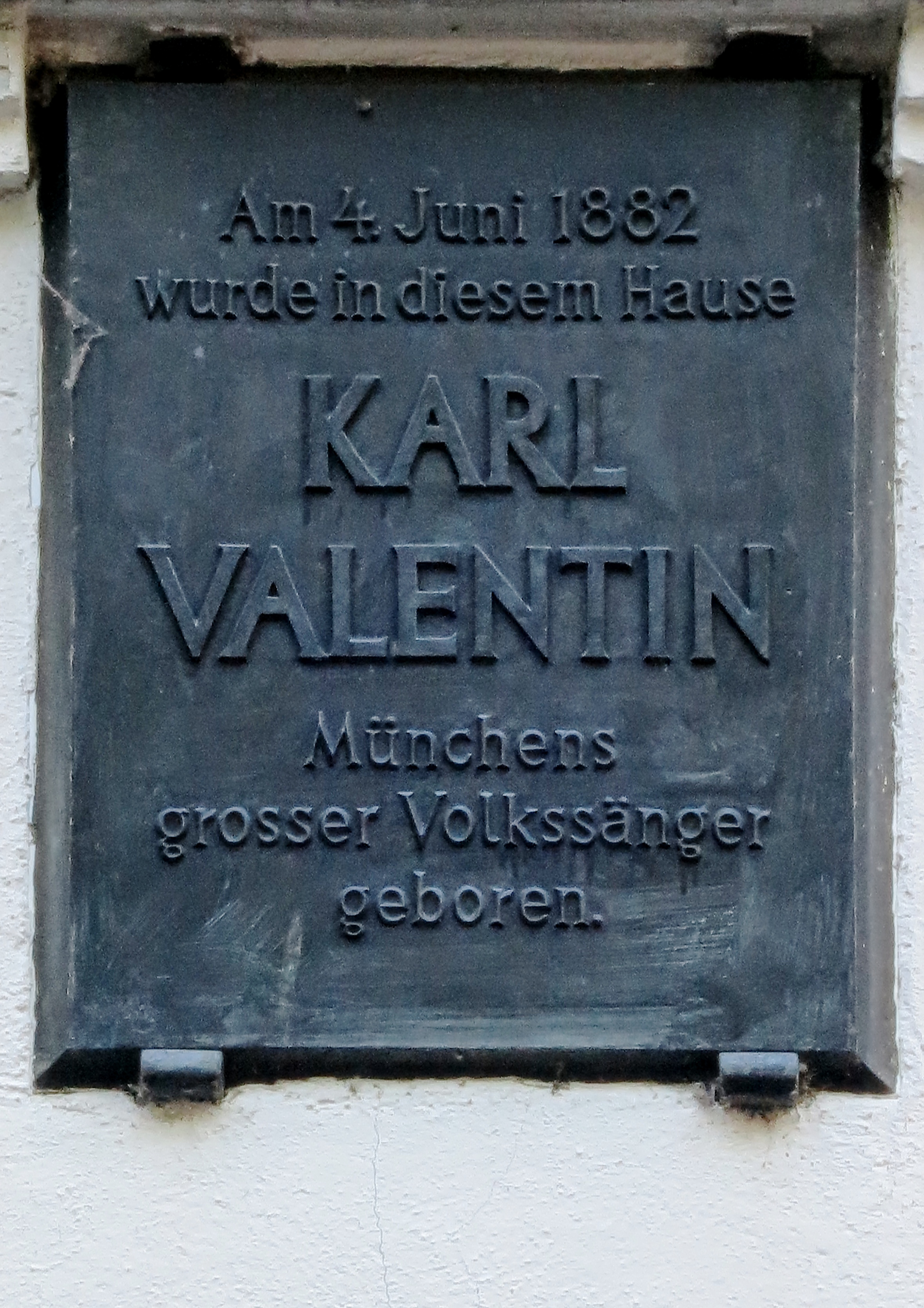 Memorial plate to Karl Valentin at the house where he was born